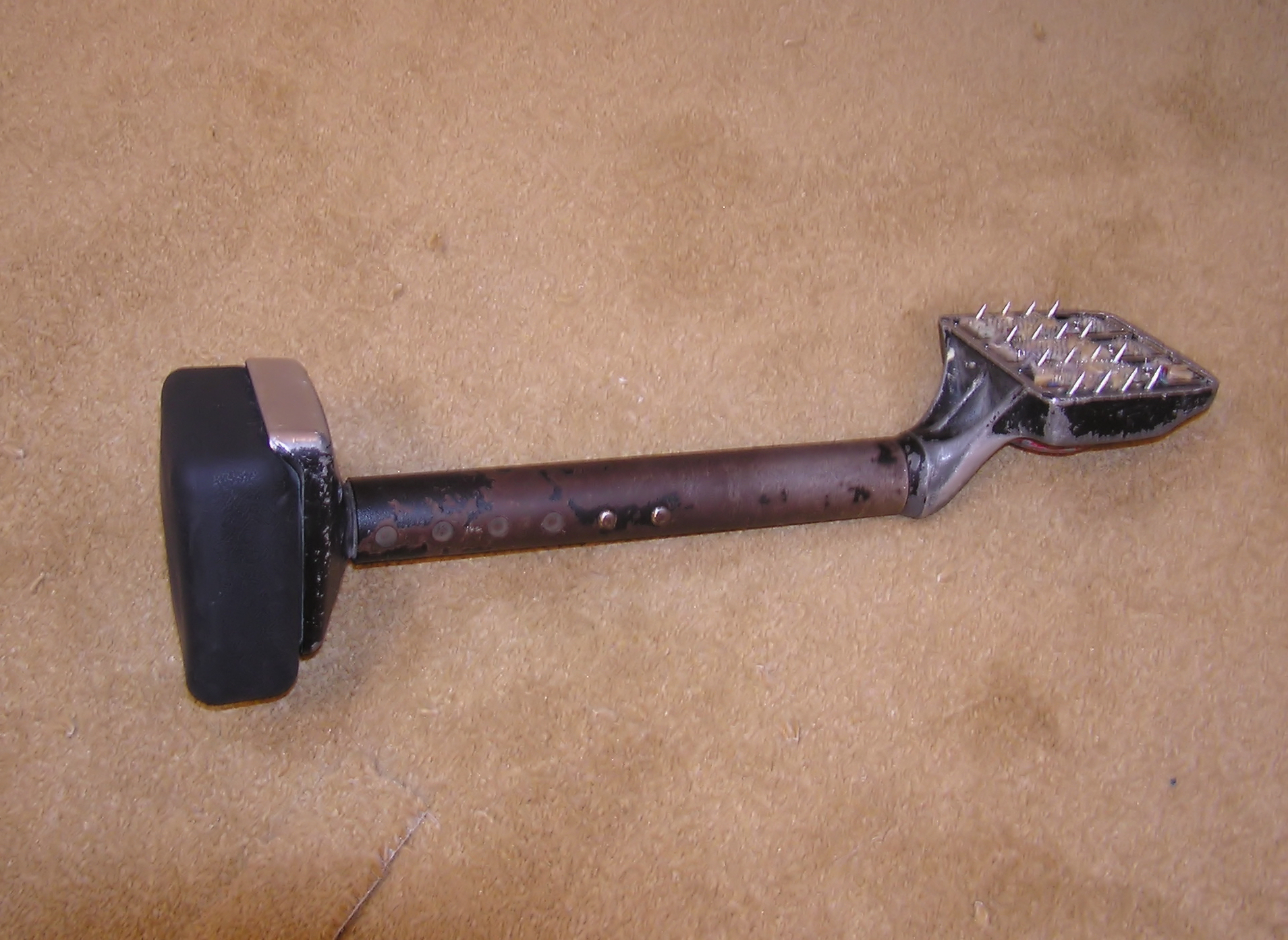 A manual carpet stretcher, shown upside down to reveal the spikes that grip the carpet during stretching. The fitter rams his knee (with great force) on the black padded end of the tool, with the spikes seen in the photo gripping the carpet. The carpet is then pushed down onto nails that stick up on the gripper strip around the periphery of the room. The fitter then pushes the carpet edge down into the channel behind the gripper, to produce a perfect edge.